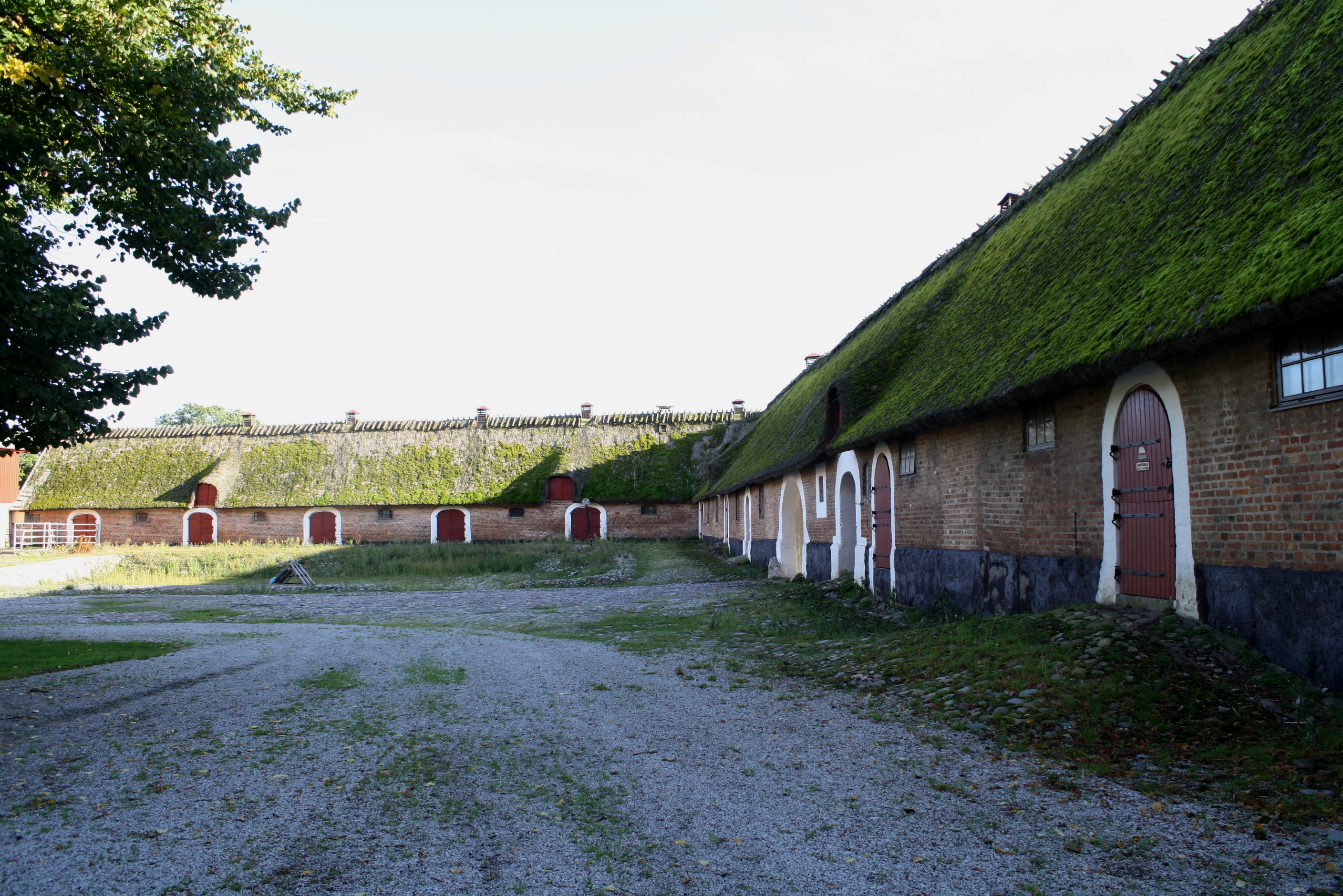 The castle at Borgeby and stables